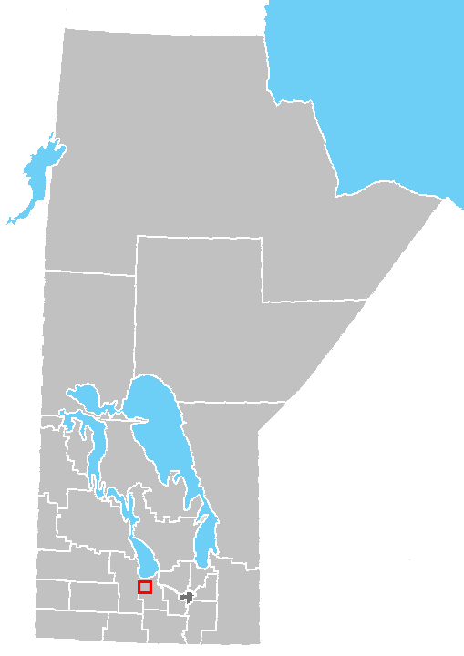 Location of Portage la Prairie, Manitoba